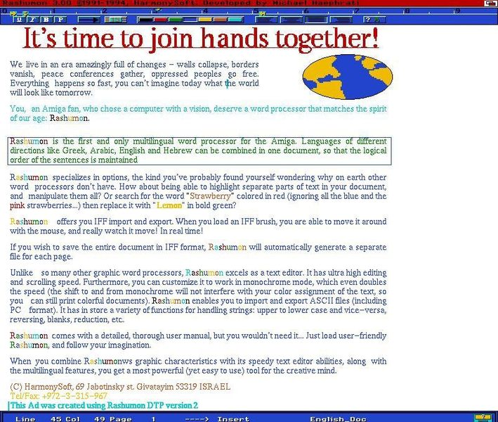 This is a sample of how the printout that came from Rashumon looked like.